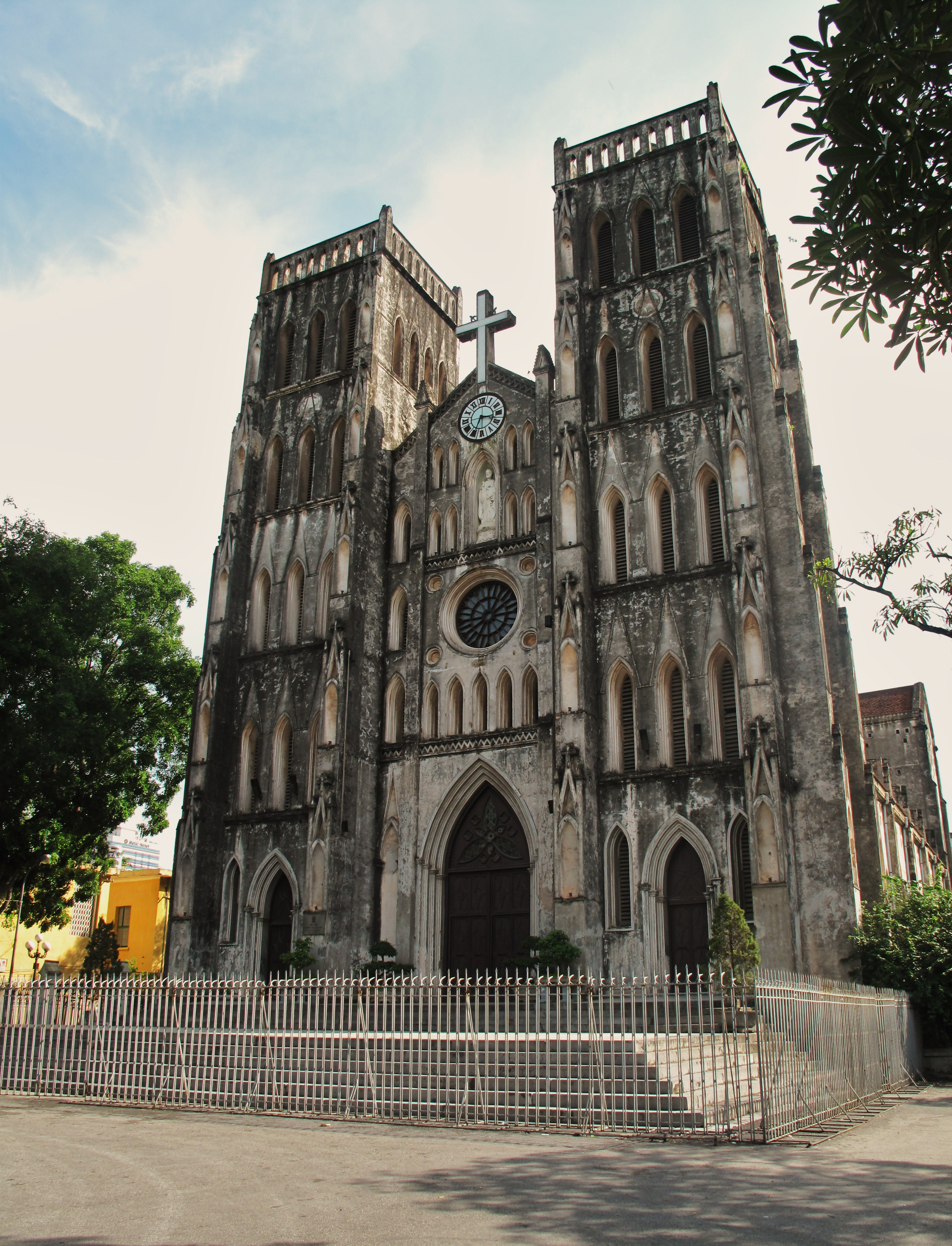 St. Joseph's